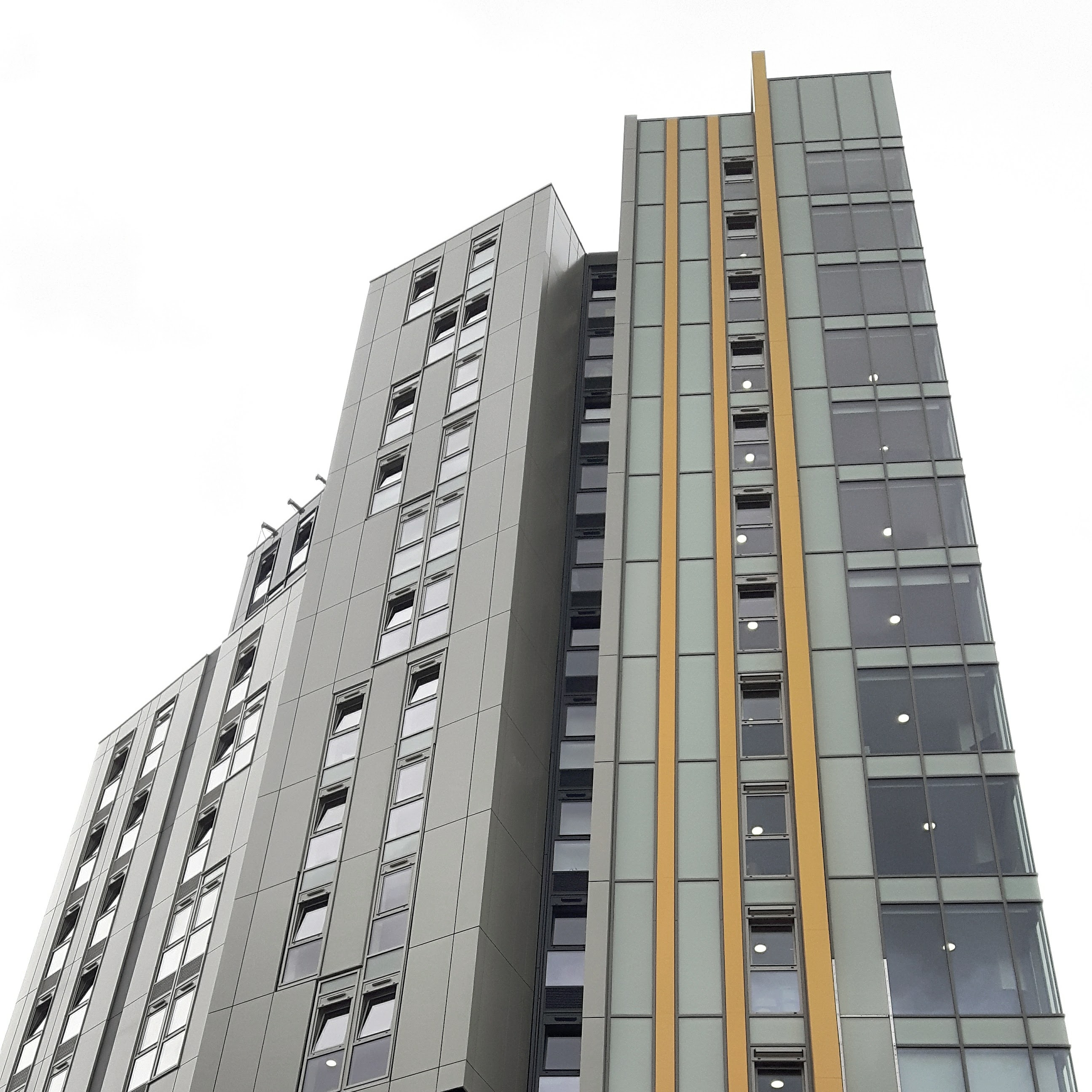 The facade of the new-build (2016) student accommodation in central Bristol